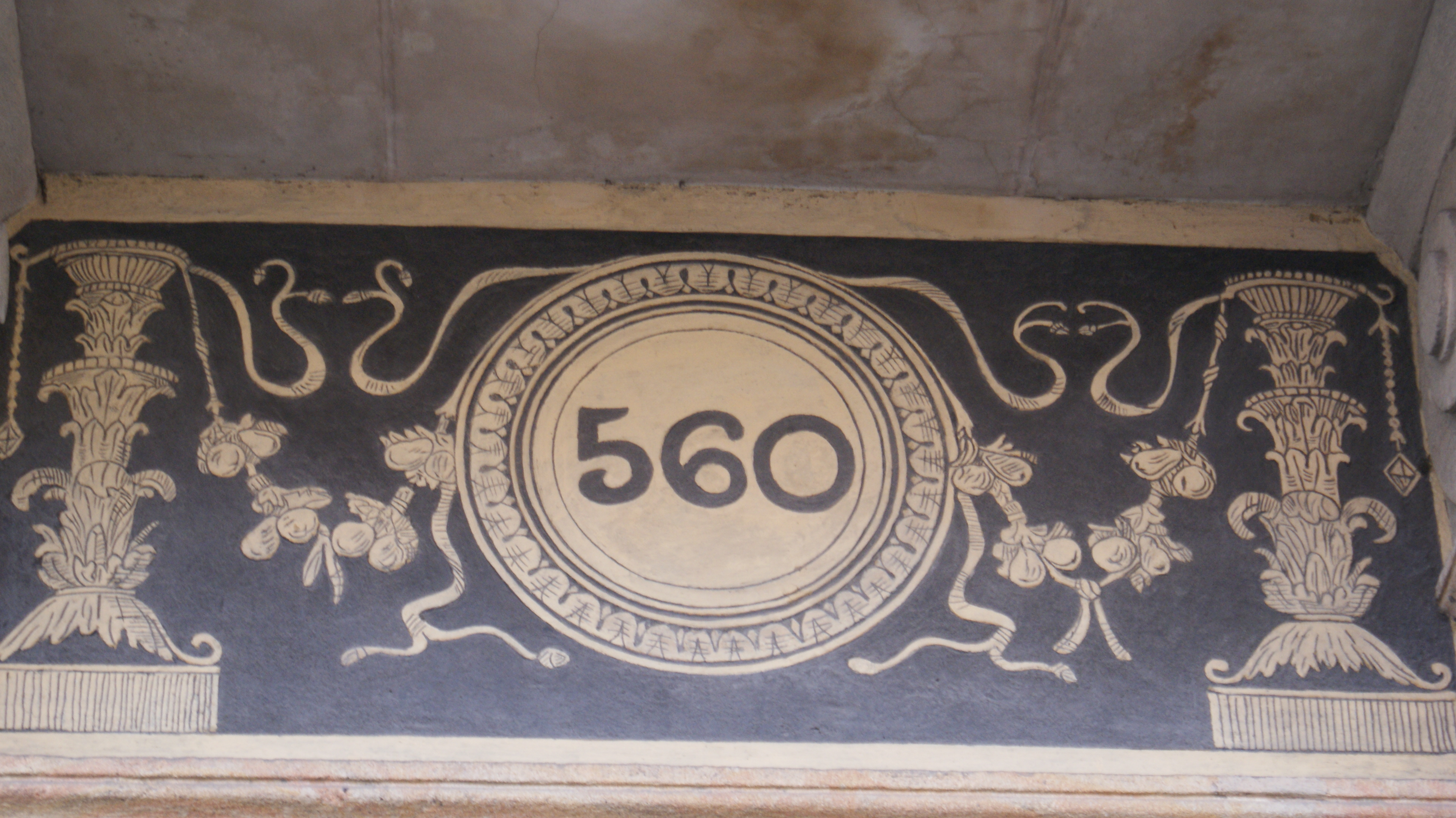 Wiehl - House No 560, Wilsonova Str., in Slaný, Kladno District, Central Bohemian Region, Czech Republic.